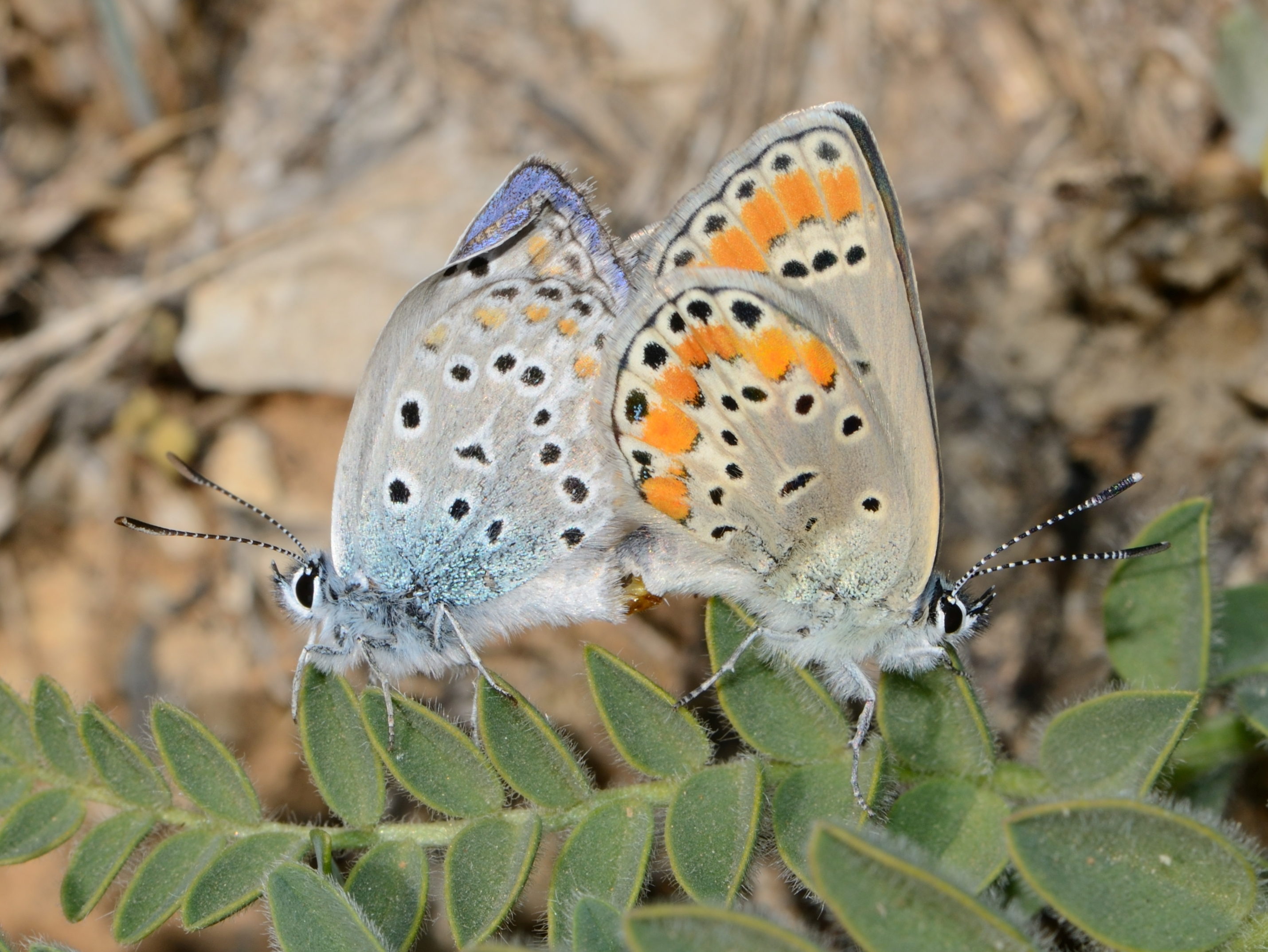 Plebejus pylaon nichollae copulating (female right, male left) on a leaf of Astragalus sp., Mount Hermon, Israel/Syria, June 22, 2012.